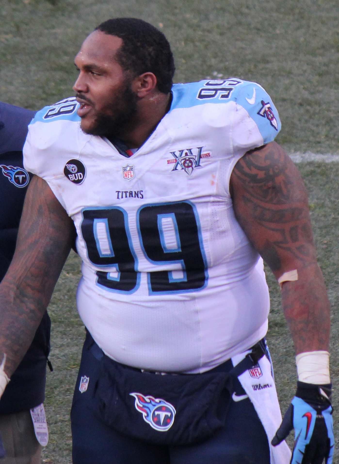 Jurrell Casey, a player on the National Football League.